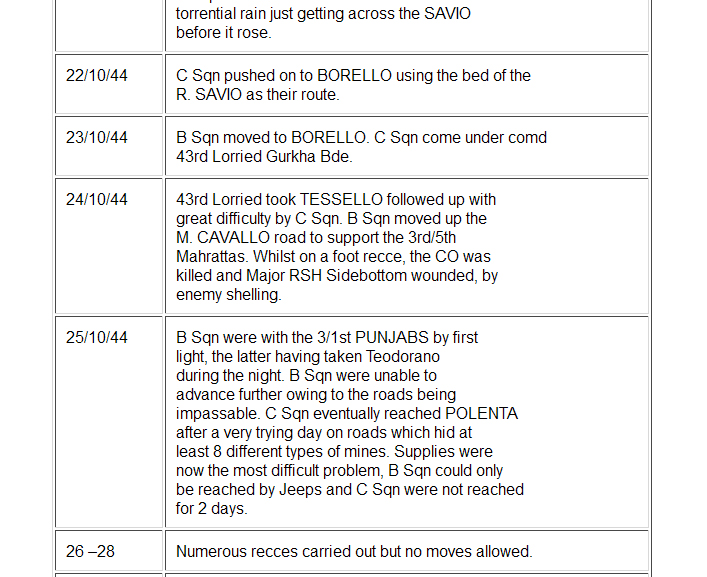 North Irish Horse - extract from War Diary - 24 Oct 1944.jpg 707 × 577, 347 KB